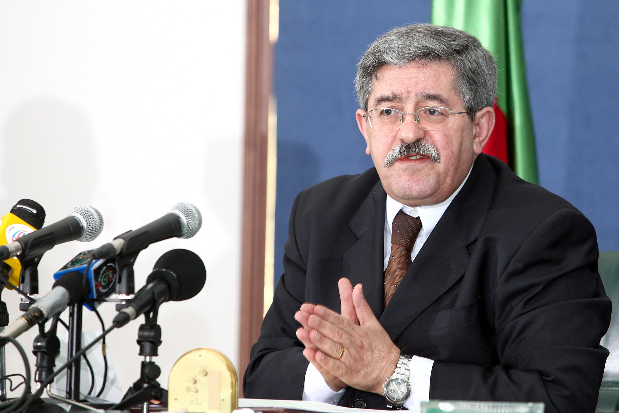 Prime Minister Ahmed Ouyahia presided over May 28th three-party talks with enterprise owners and employees.